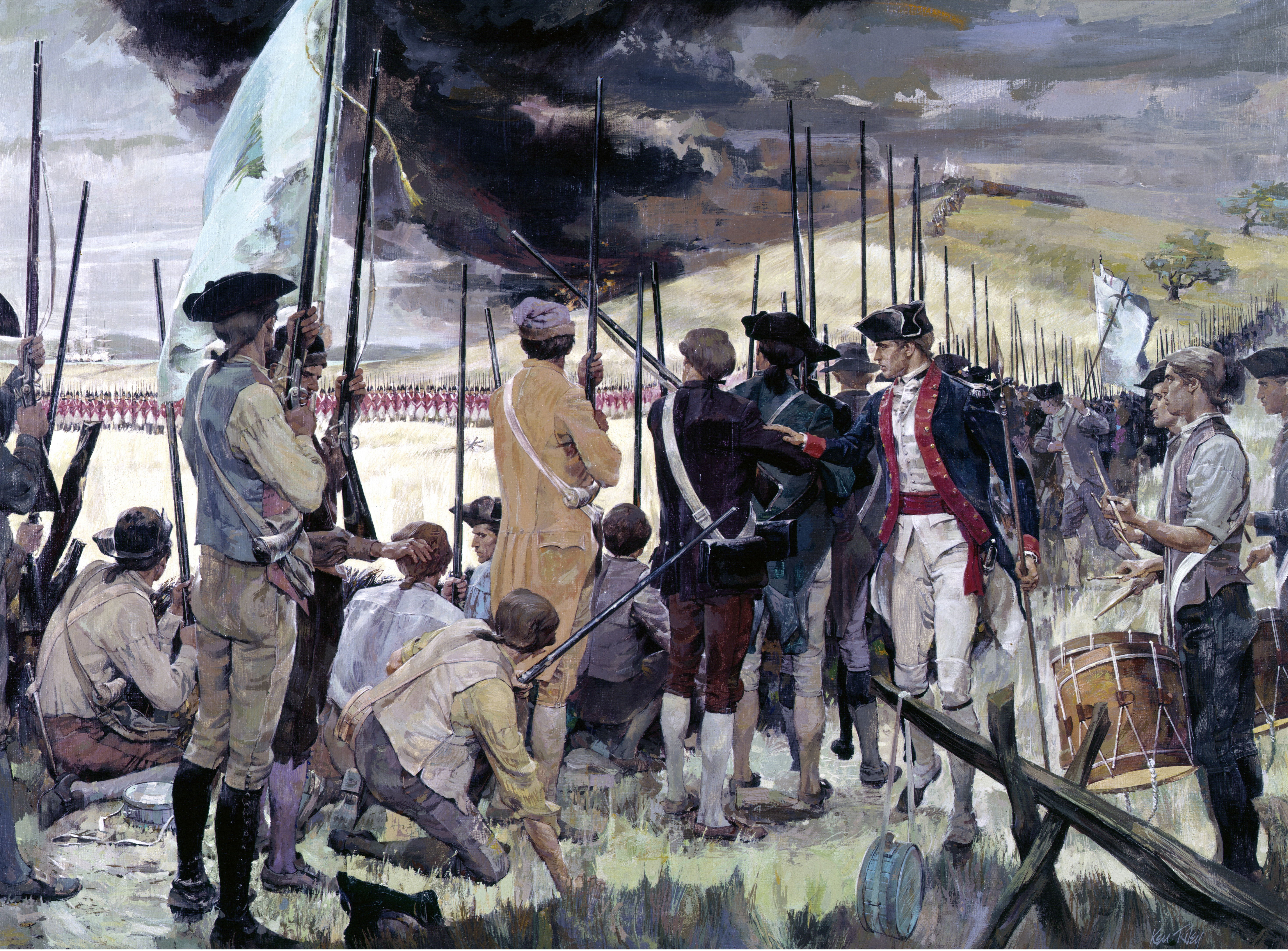 The Whites of Their Eyes by Ken Riley for the state of Massachusetts, 1775. Note: Bunker Hill, Boston, Massachusetts, June 17, 1775..Along the battle line on Breed's Hill and extending to the Mystic River (destined to go into history books as "The Battle of Bunker Hill"), the colonial militiamen coolly held their fire as seven crack regiments of the British Army, the best infantry in the world, advanced toward them. Up from the Charlestown landings came the red-coated enemy, anticipating an easy victory. An officer sternly admonished the militiamen, "Do not fire until you see the whites of their eyes!" With magnificent discipline and courage, they waited . . . fired. . . and thus began the War for Independence. The American militia proved to the world that civilian volunteers could be molded into trained fighting men, thus forging the high tradition of the National Guard in our armed forces.